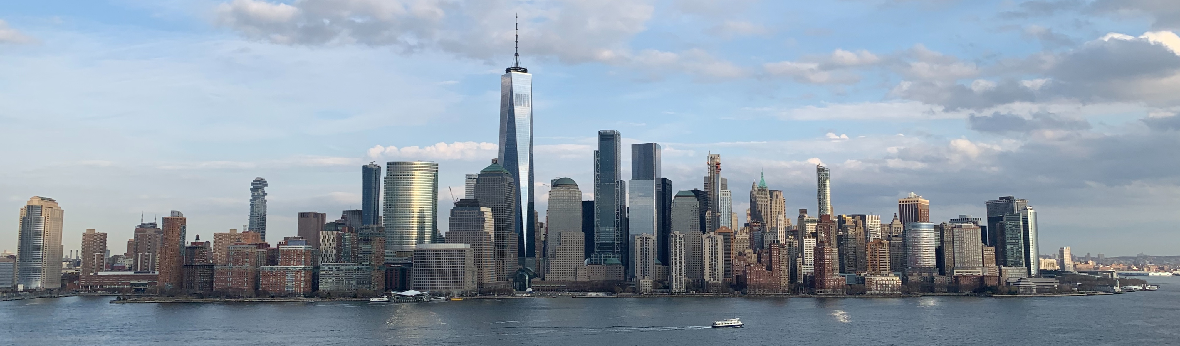 Panoramic view of the Lower Manhattan skyline, dominated by One World Trade Center, taken March 15, 2019, from the RoofTOP at Exchange Place in Jersey City, New Jersey.